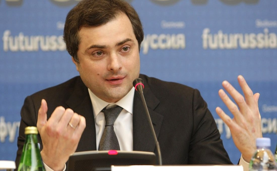 Vladislav Surkov